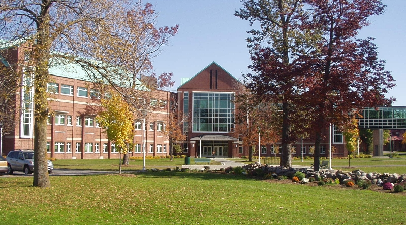 Taken by myself on October 11, 2003.